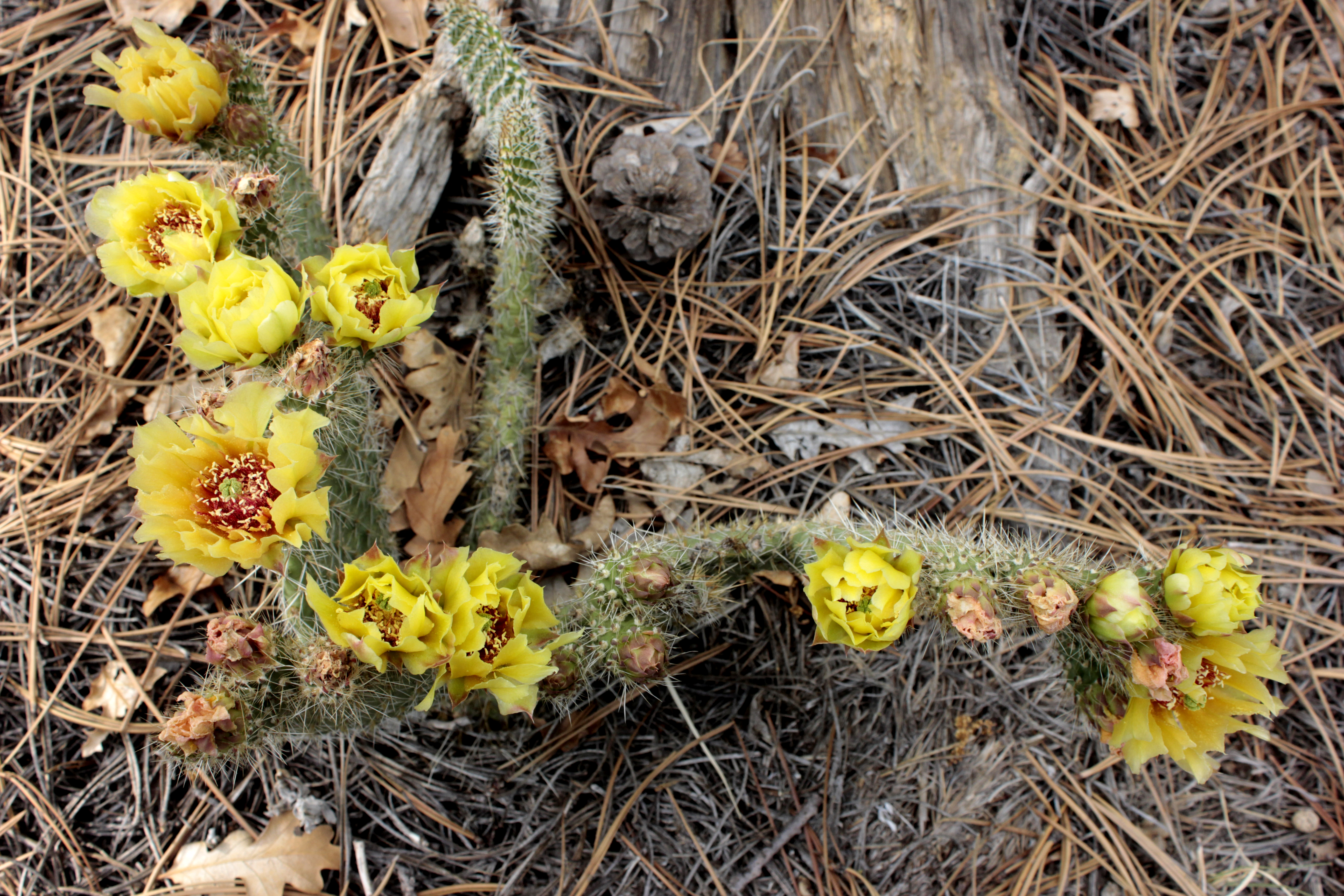 A Prickly Pear Cactus in bloom. Palmer Park in Colorado Springs, Colorado.